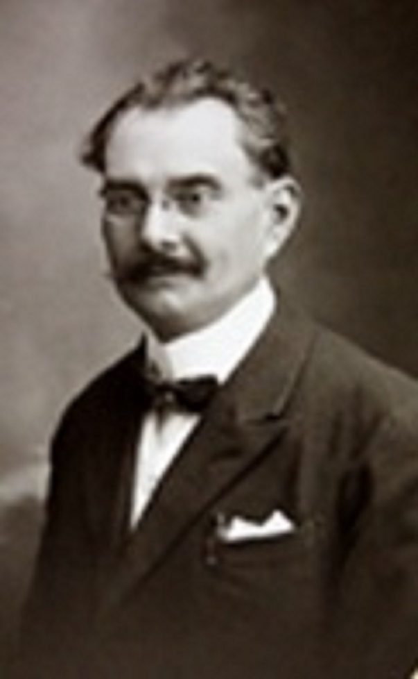 Benezet Vidal, occitan writer from Auvergne.